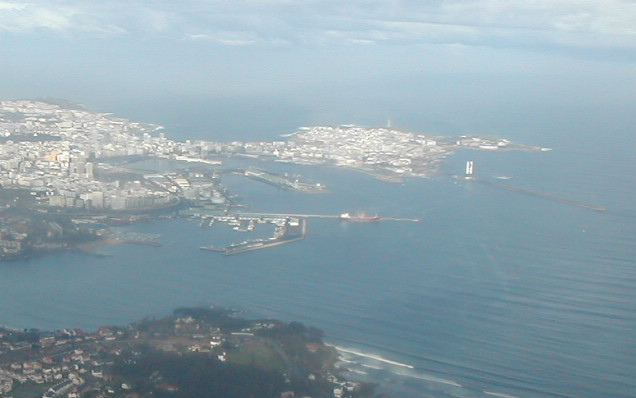 CORUNA